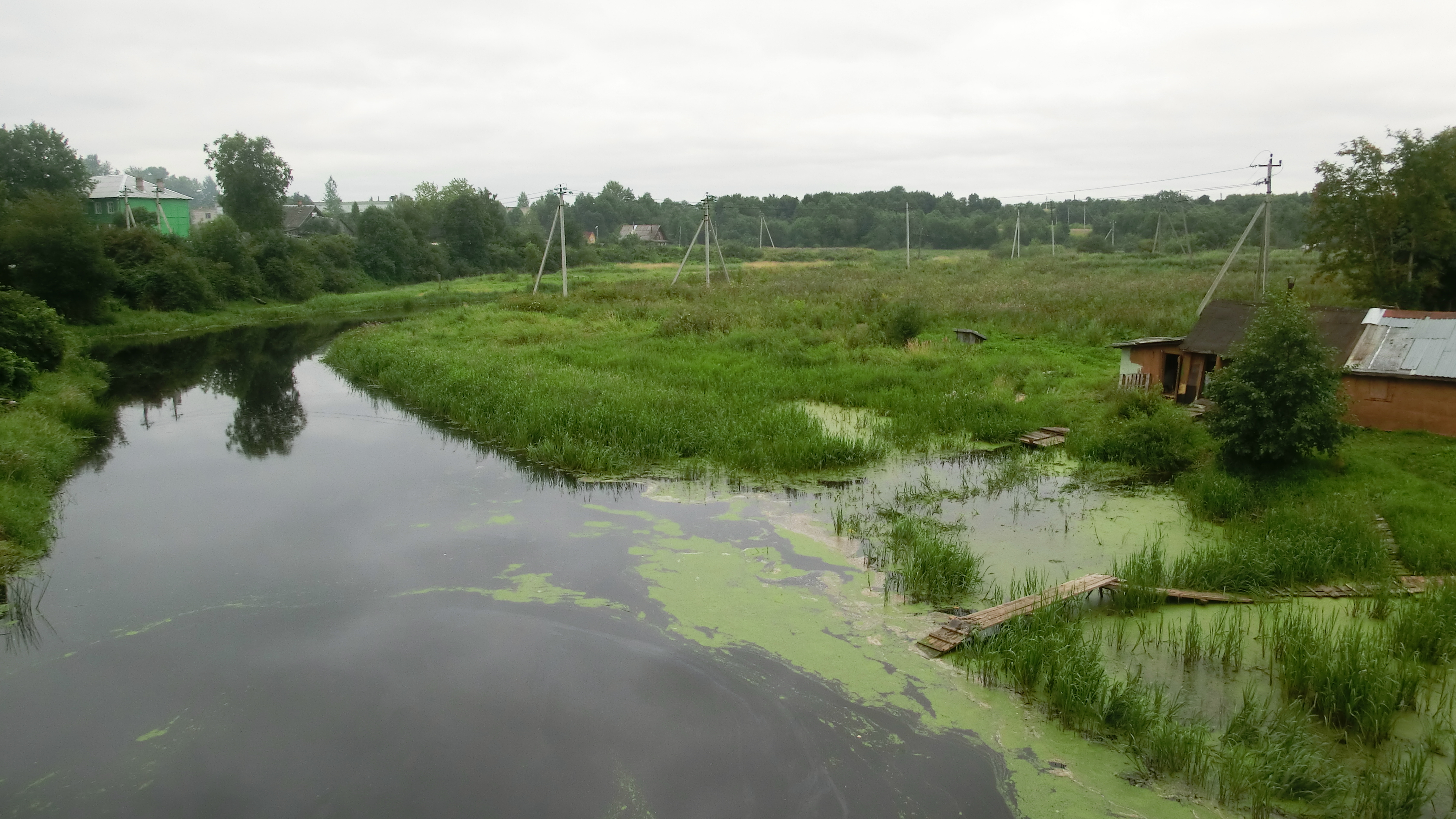 River Elena view from a bridge in Staraya Ladoga.